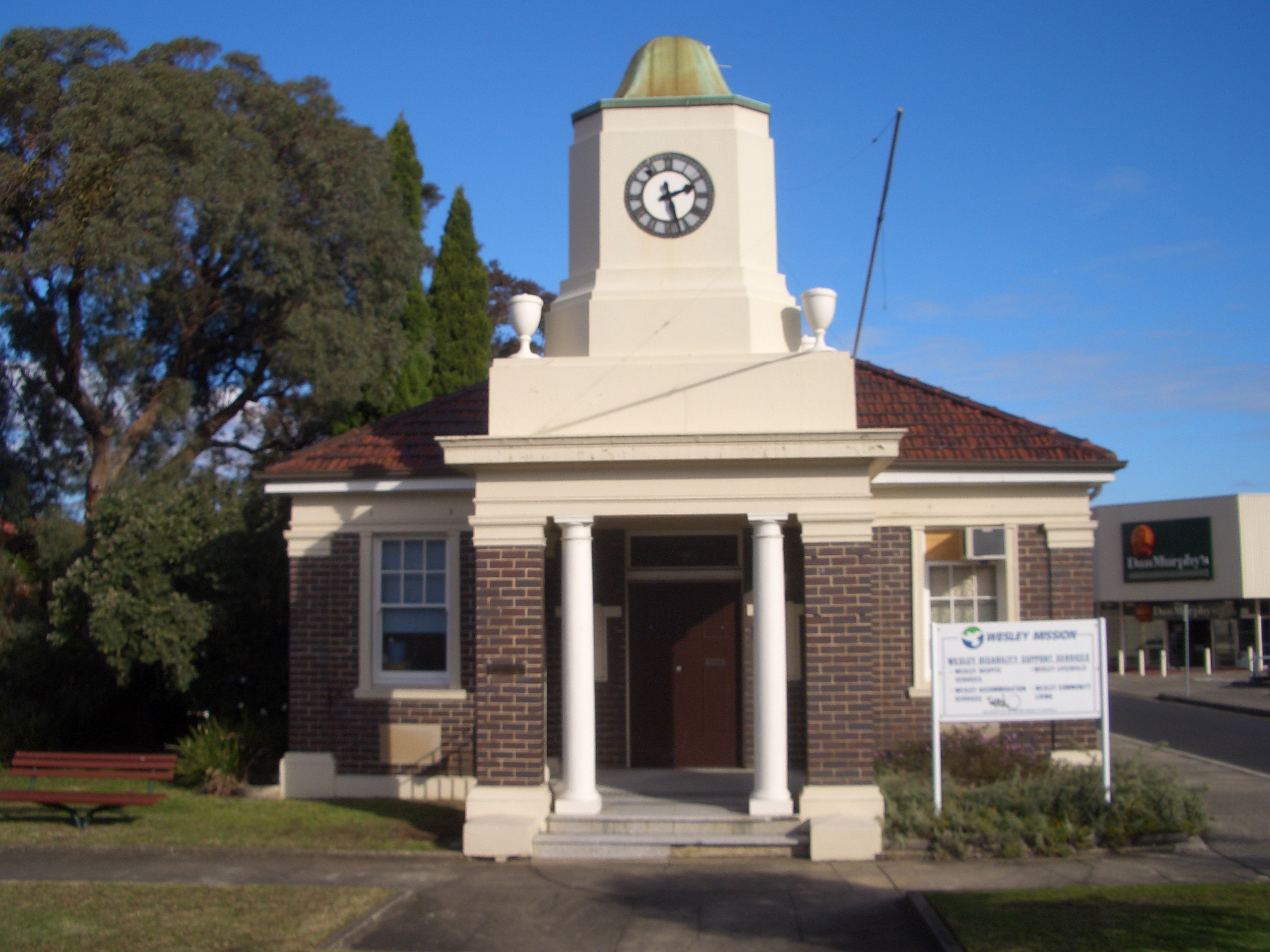 Town Hall, Liverpool Road, Enfield